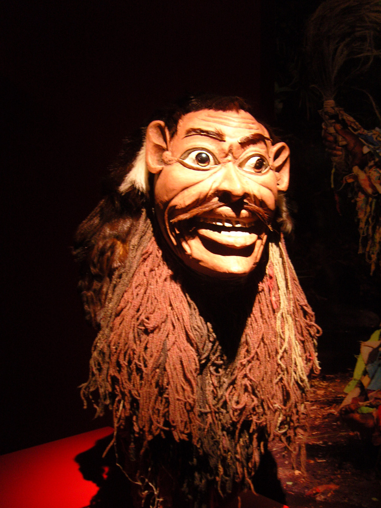 "Atsale Adzemange" (May the Survivors Prevail) AIDS related mask from "The Village is Tilting: Dancing AIDS in Malawi" UBC